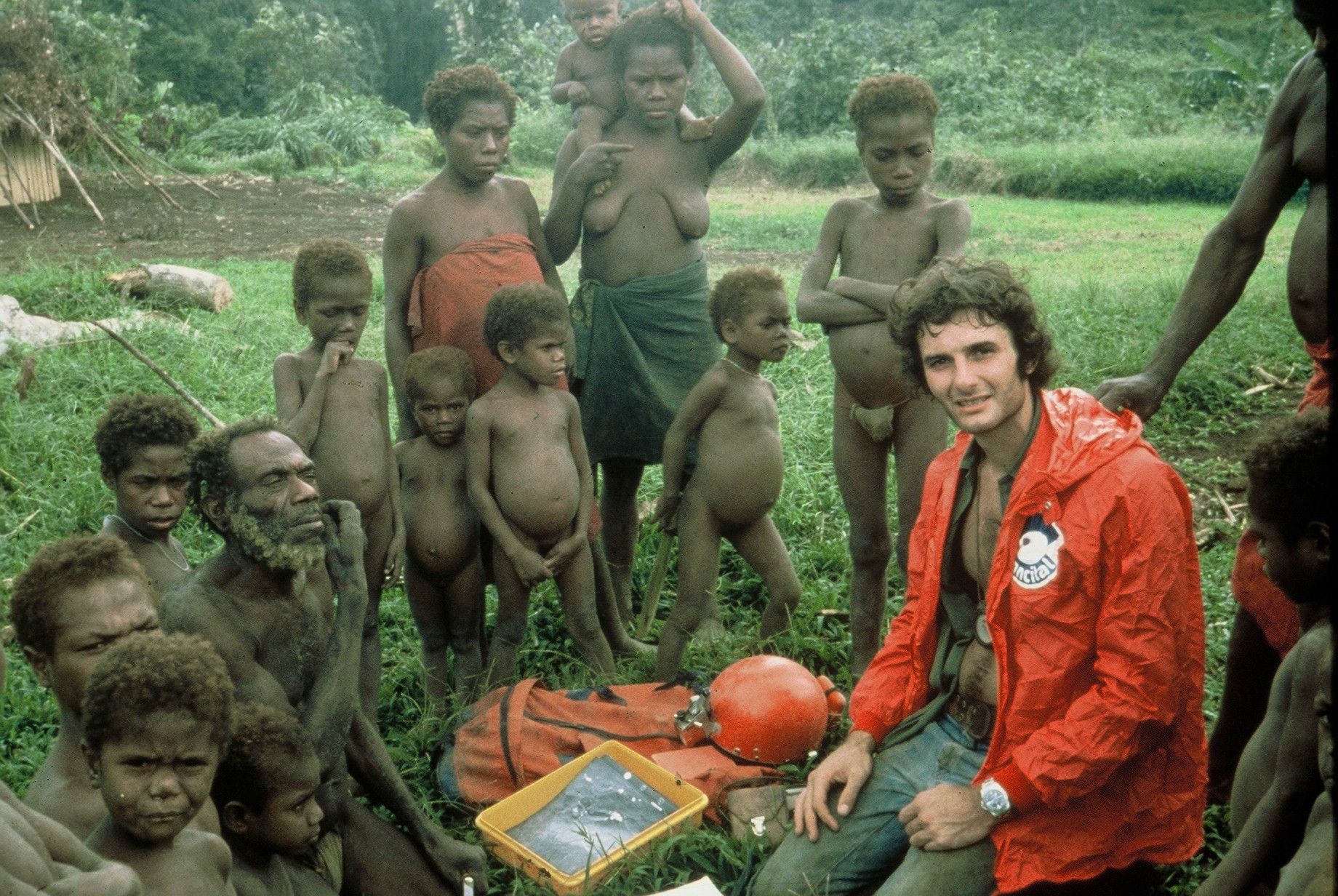 Jean-François PERNETTE Papua New-Guinea (1980)